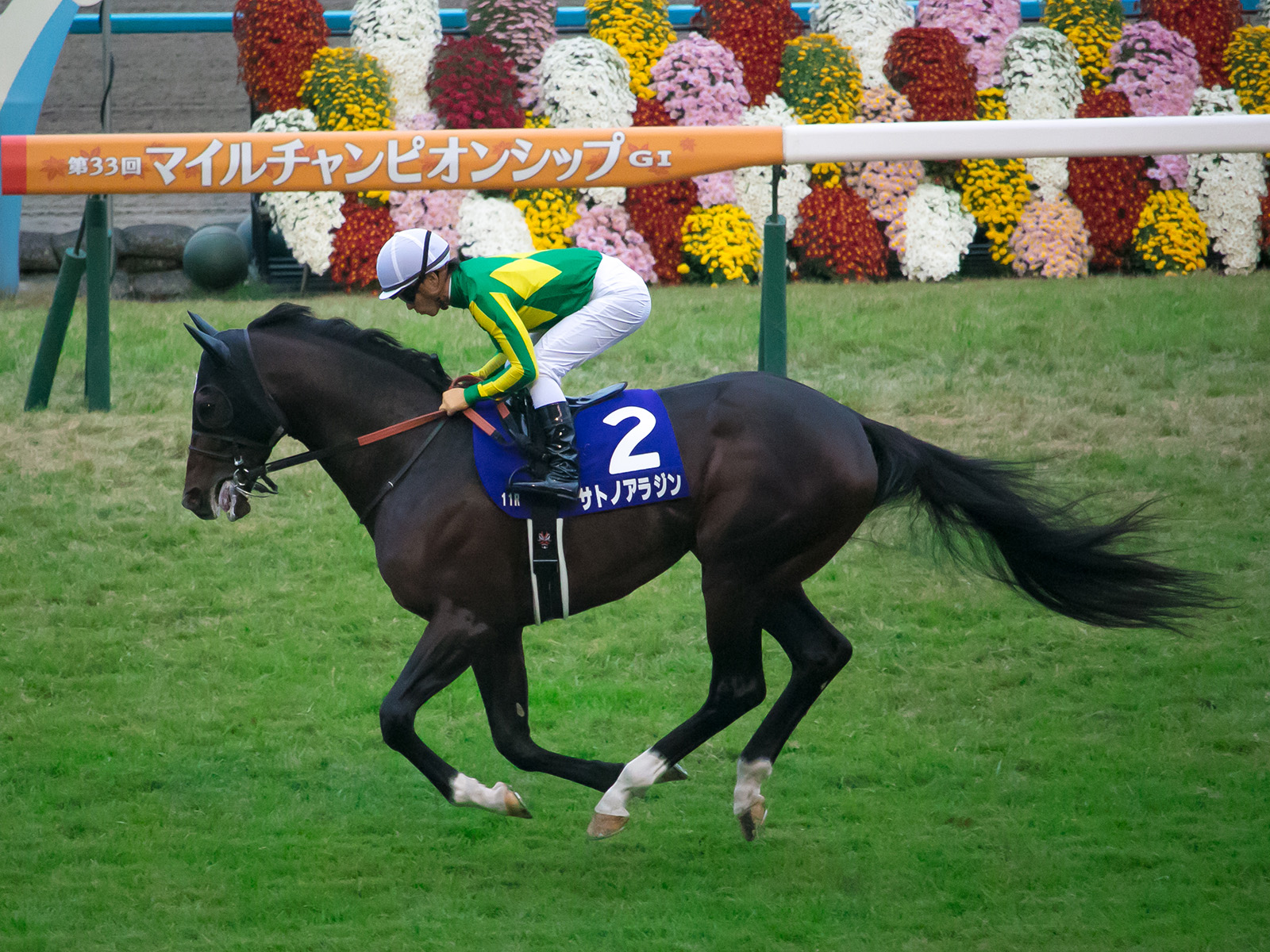 Satono Aladdin (Racehorse of Japan).